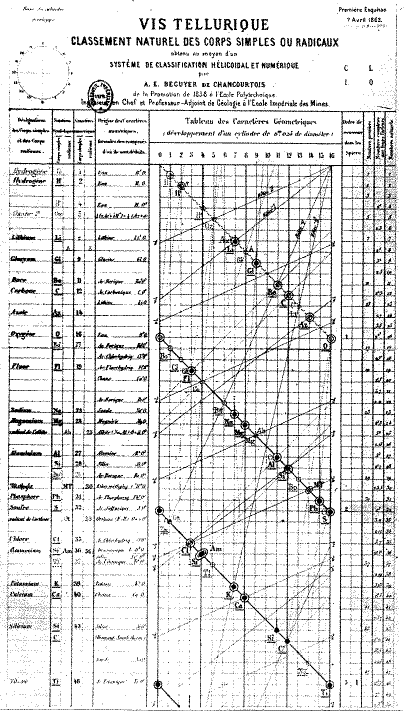 2= Vis tellurique method of organizing the Periodic table in 1862